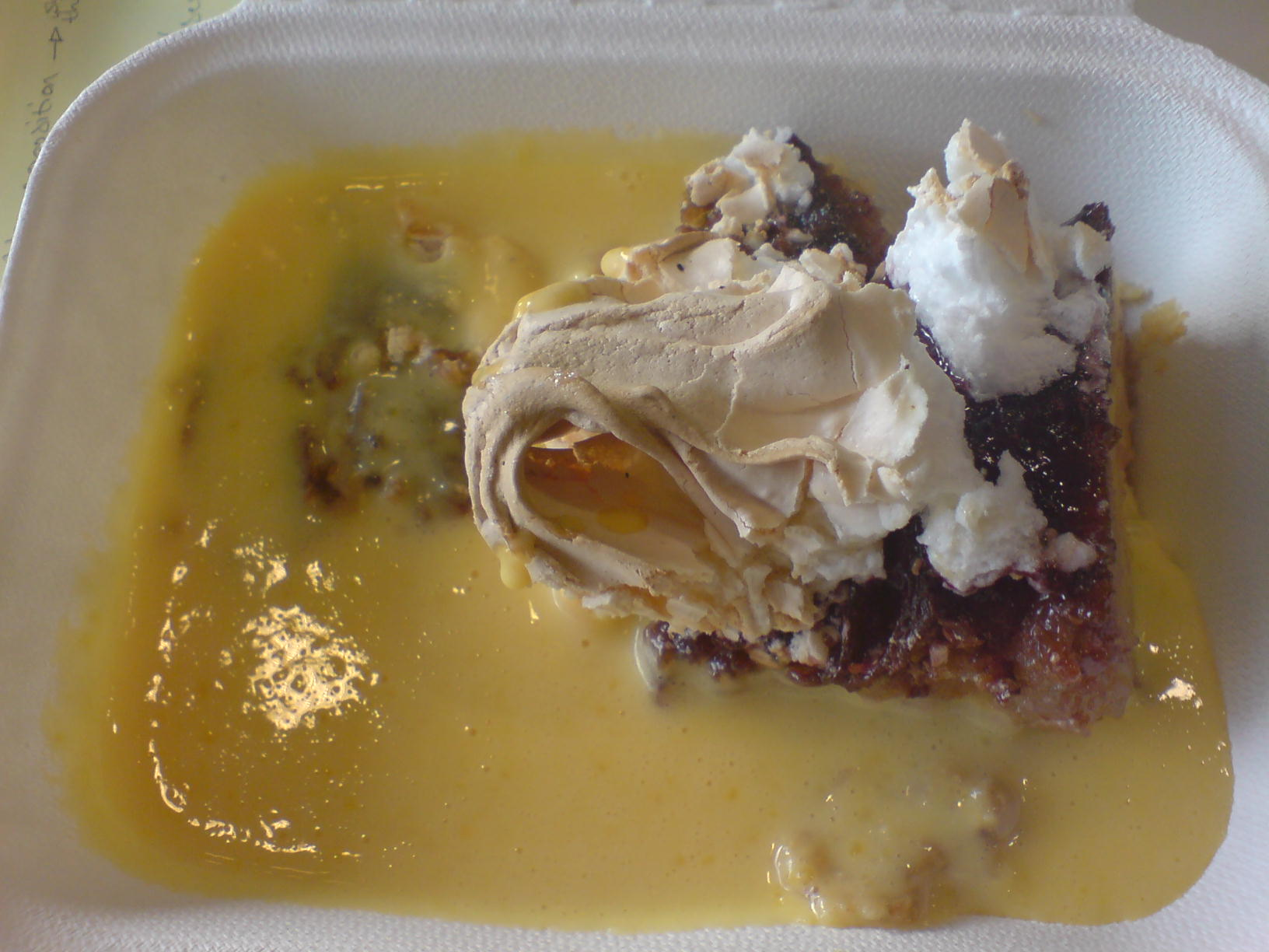 Queen of puddings served with custard